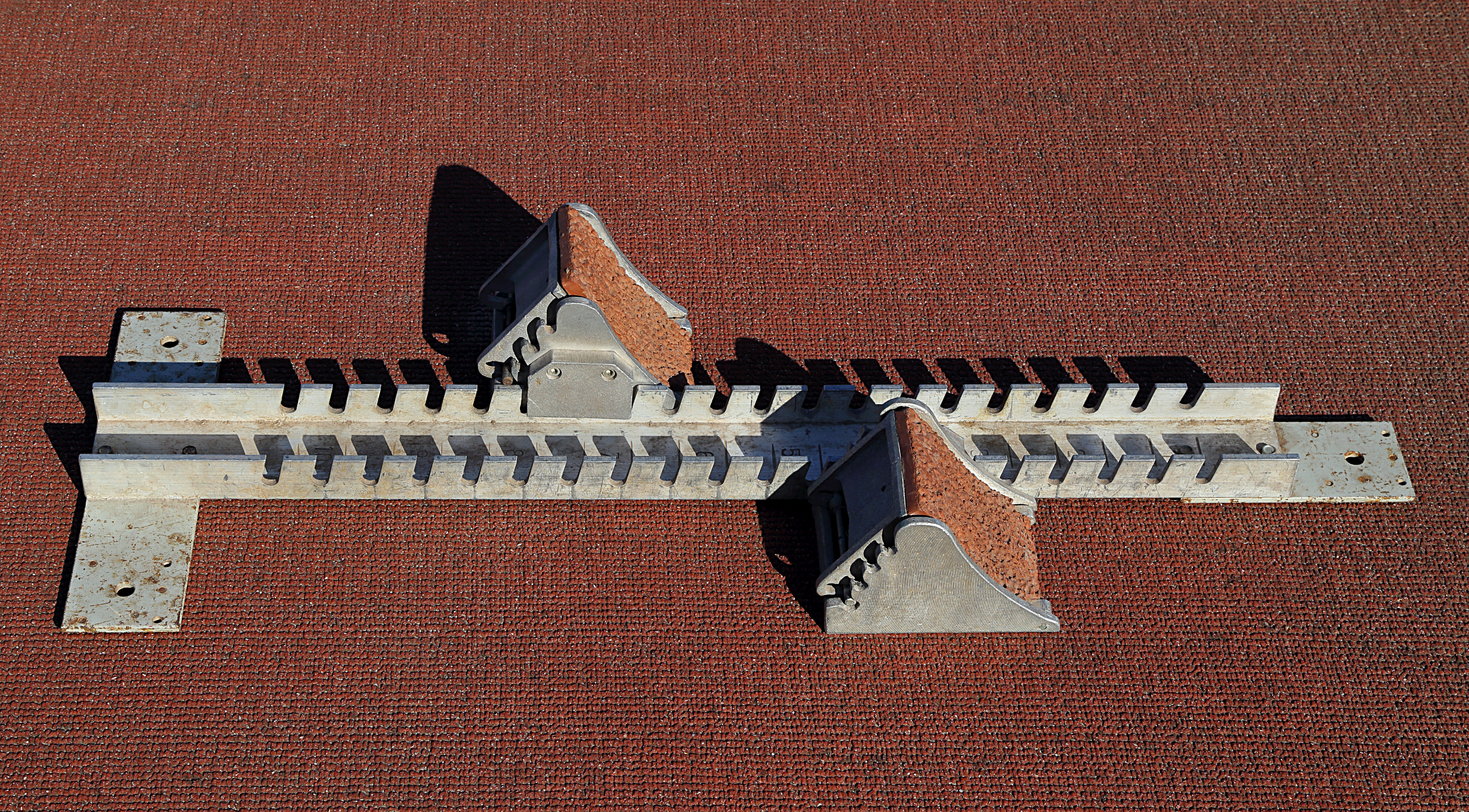 A starting block, picture taken in Belgium.